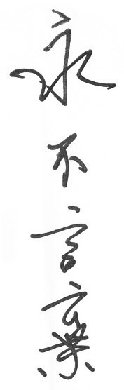 This is Norman Chui's handwriting.